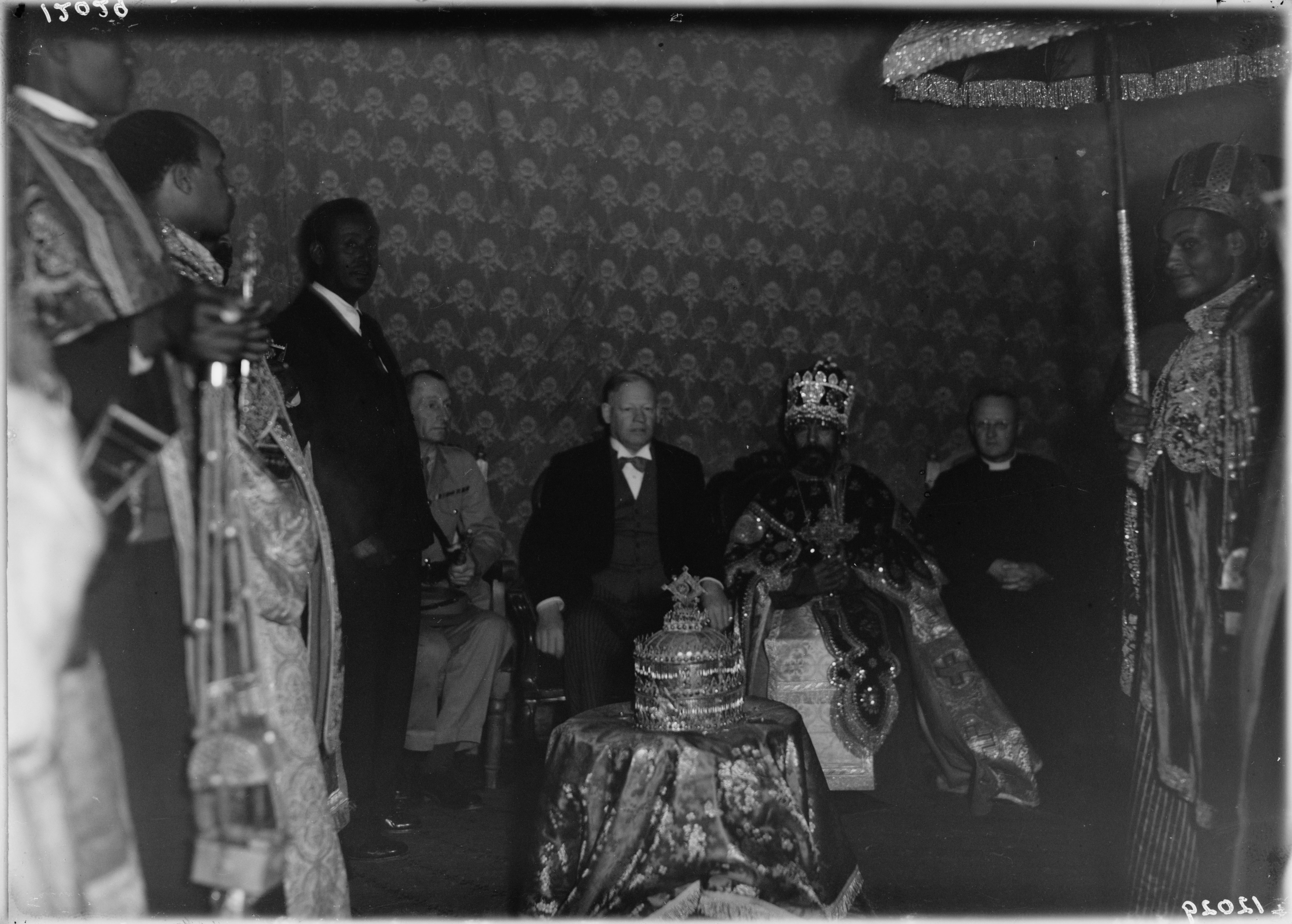 Calendar of religious ceremonies in Jer. [i.e., Jerusalem] Easter period, 1941. Ethiopian ceremony on roof of St. Helena Chapel.